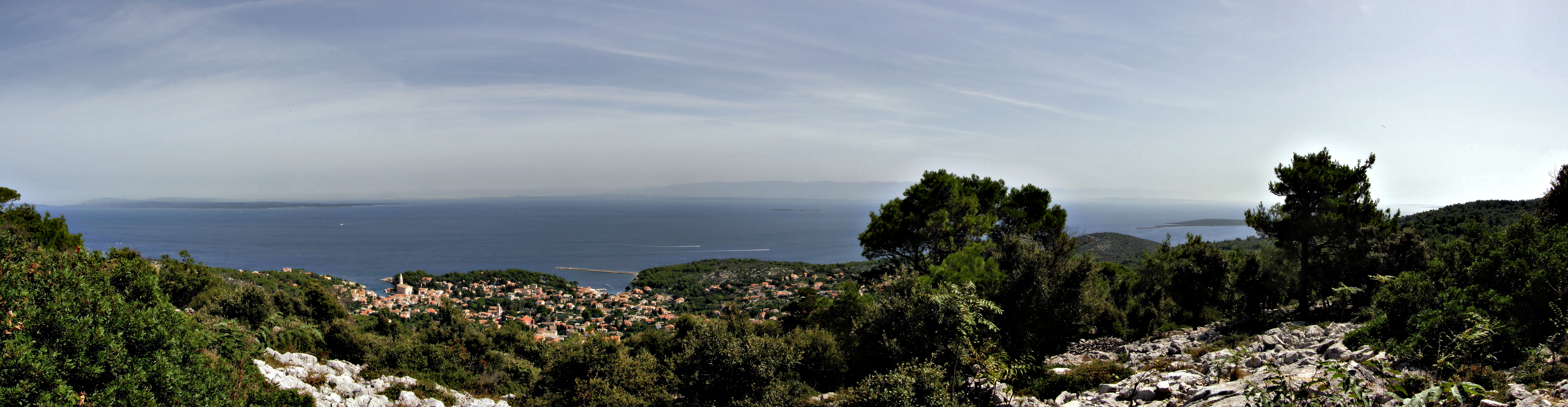 Panorama from St. Ivan's hill looking on Veli Lošinj